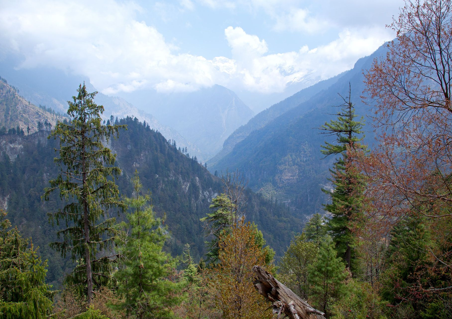 Marsyangdi valley, Manang district, Nepal